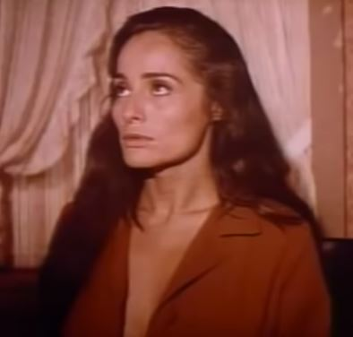 Cropped screenshot of Pilar Pellicer from the film Day of the Evil Gun (1968).